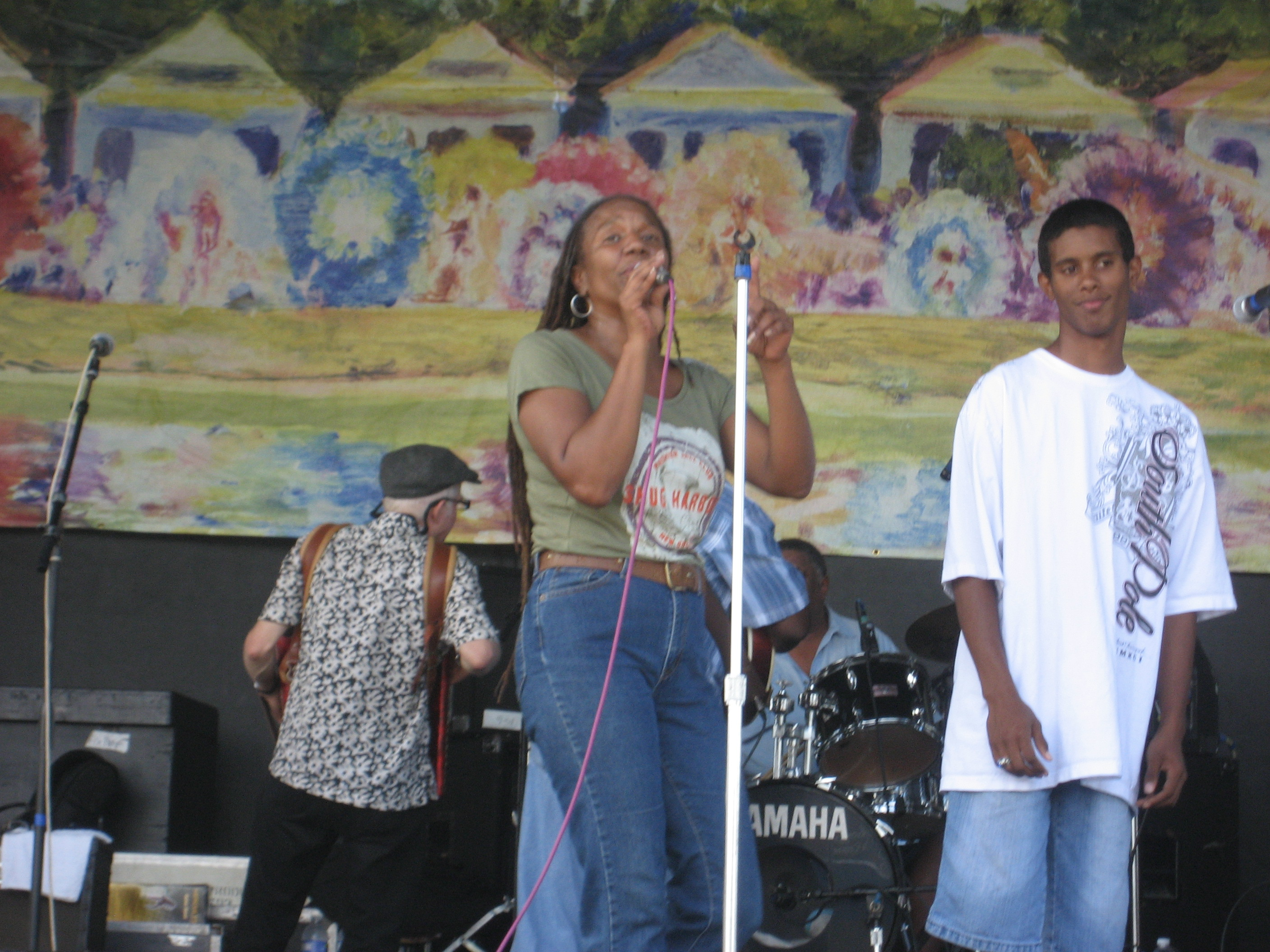 Charmiane Neville, Mid-City Bayou Boogaloo, New Orleans. She brought her grandson up to sing a number.